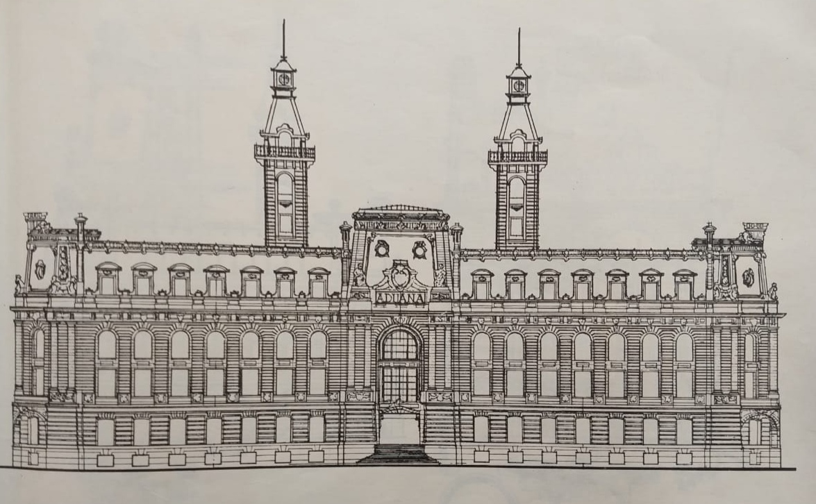 Imagen Antigua de la fachada realizada por los arquitectos originales